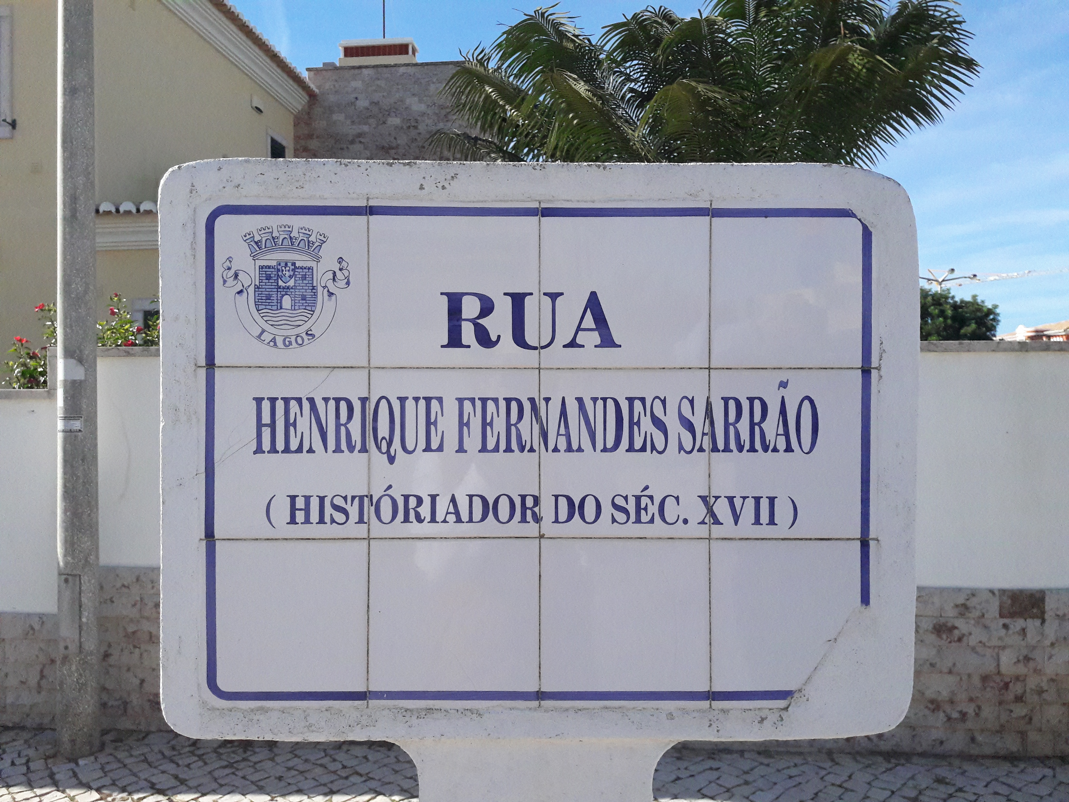 Street sign of Rua Henrique Fernandes Sarrão, in the city of Lagos, in southern Portugal.